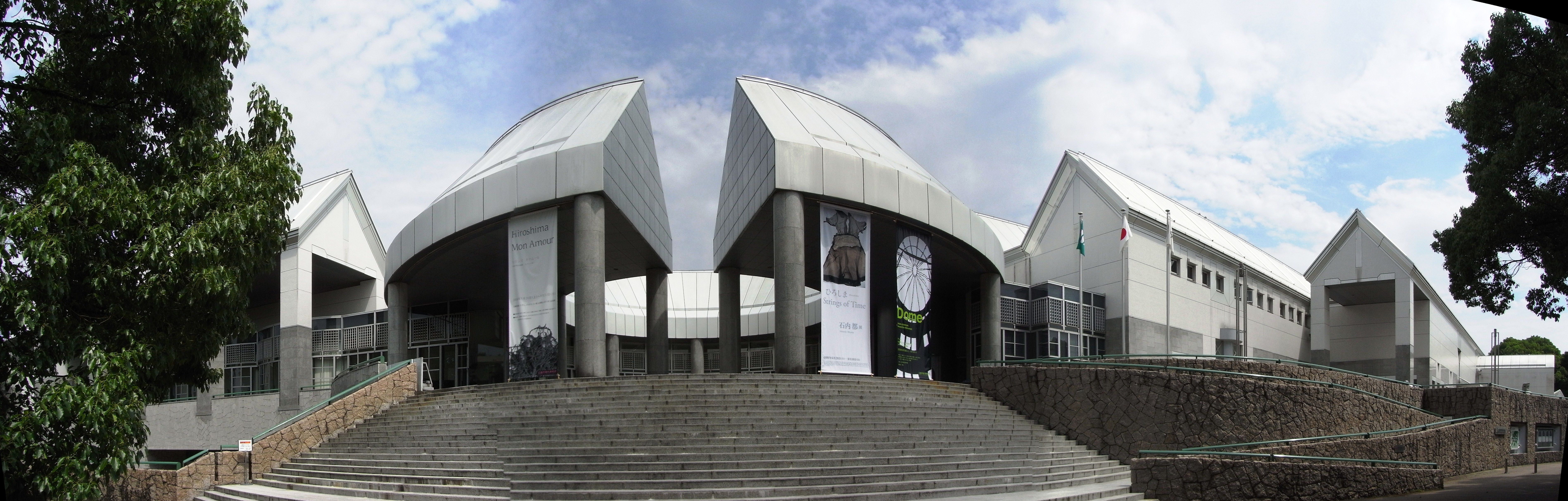 Hiroshima City Museum of Contemporary Art